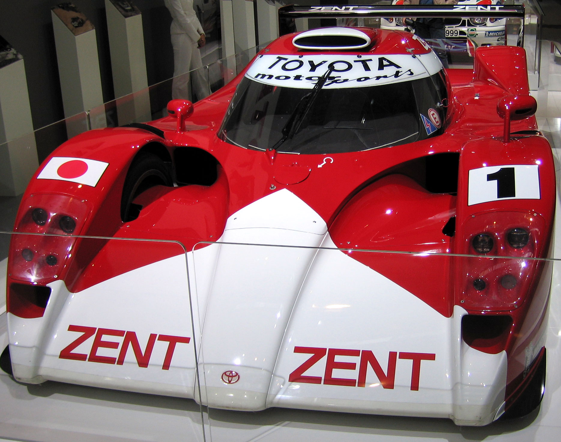 Toyota TS020 GT One at the IAA 2007